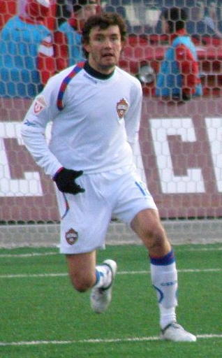 Yuri Zhirkov in action for PFC CSKA Moscow